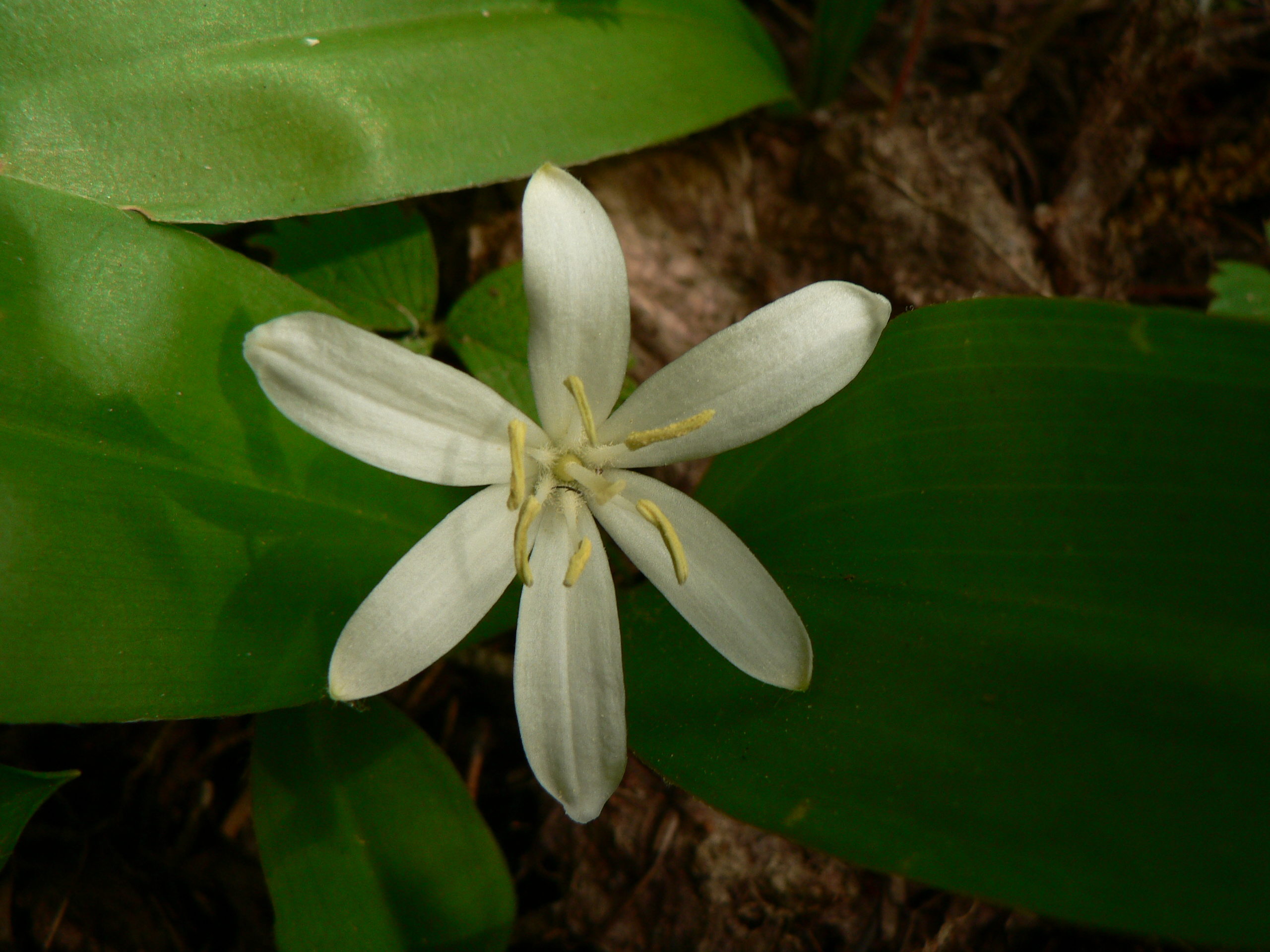 Queen's Cup, Bride's-bonnet